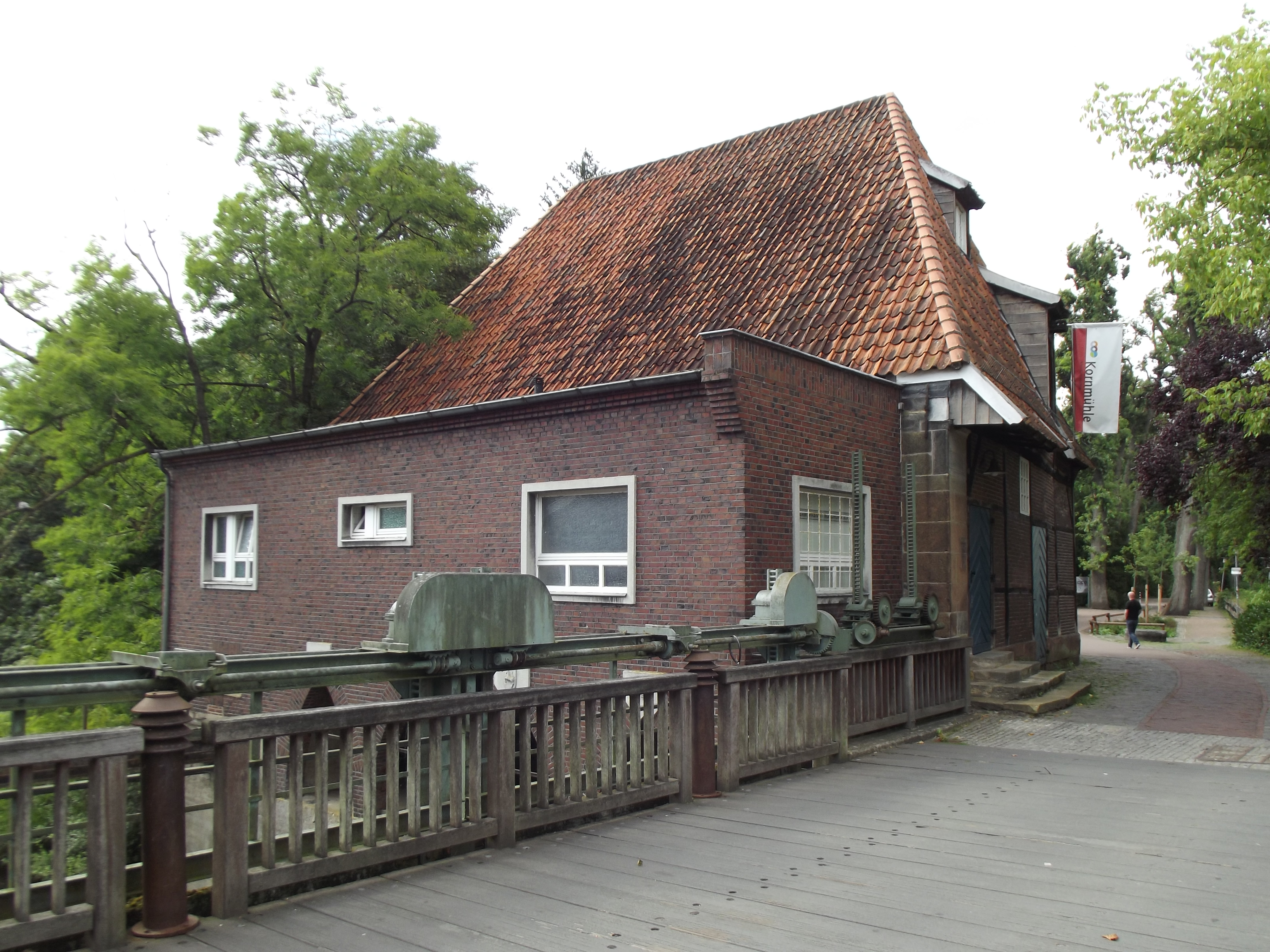 Original name "Alte Kornmühle" can be read if the pic is enlarged